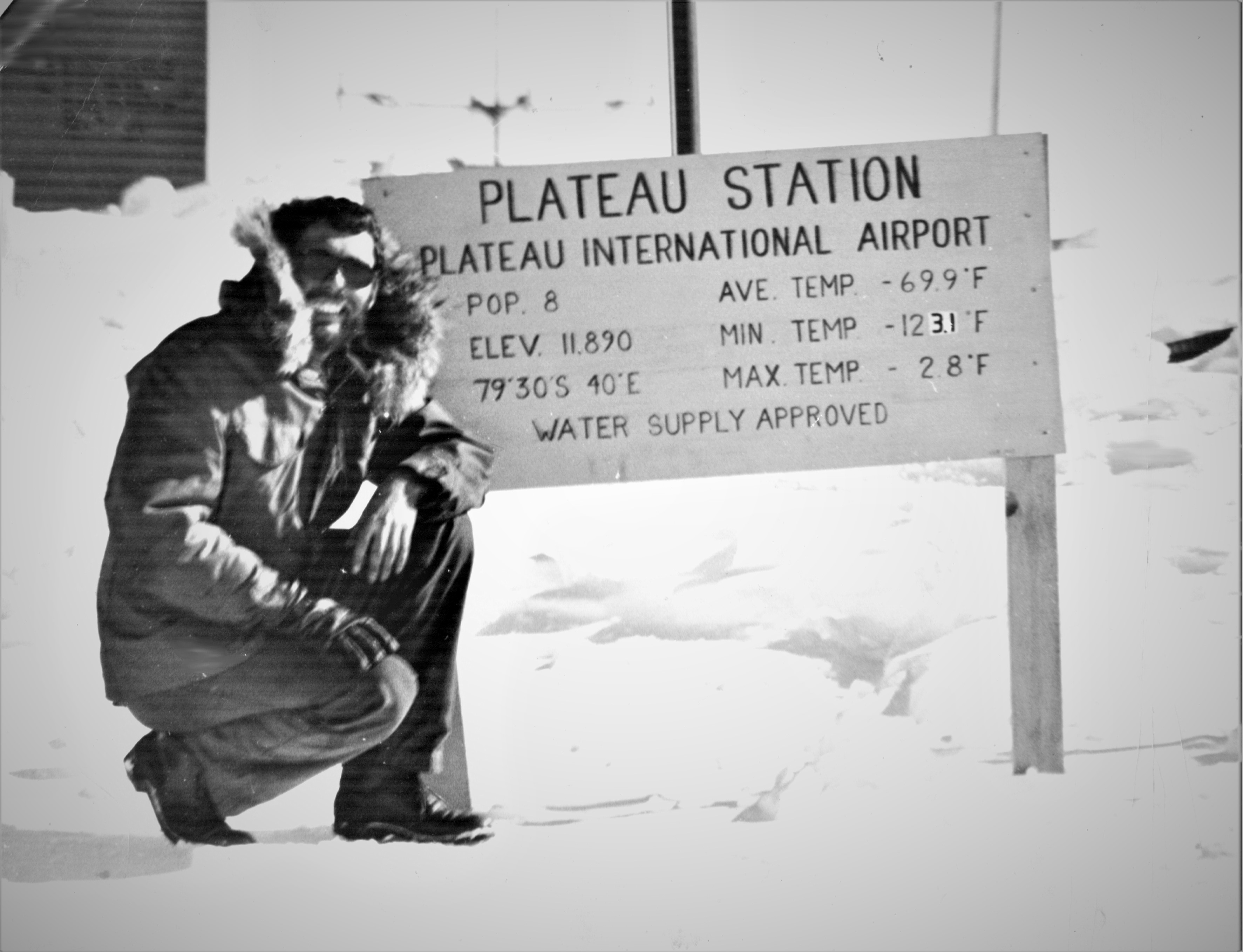 This is a picture of the small billboard located at Plateau Station Antarctica in December of 1968. The picture was of myself and taken by myself with the use of the camera timer. It was taken with my 35mm Konica. Note that the winter over crew at the station would consistantly update the temperature reading on the sign. Jwrit (talk) 15:14, 30 September 2011 (UTC)